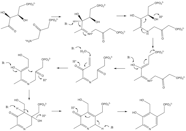 Schematic of the reaction catalyzed by pdxJ